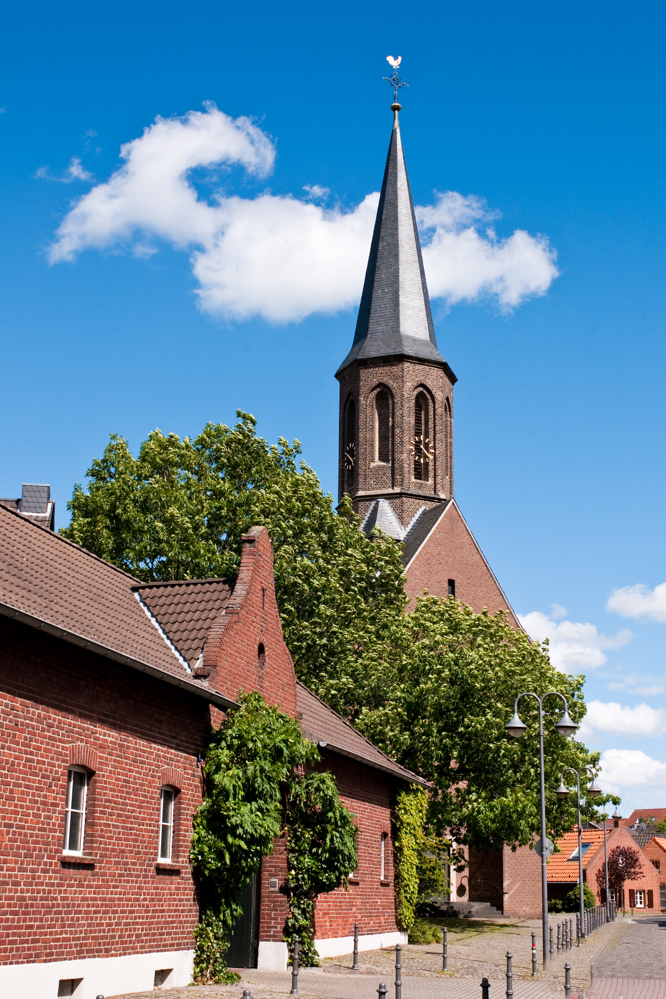 Church St. Cyriakus in Grimlinghausen, Rheinkreis Neuss